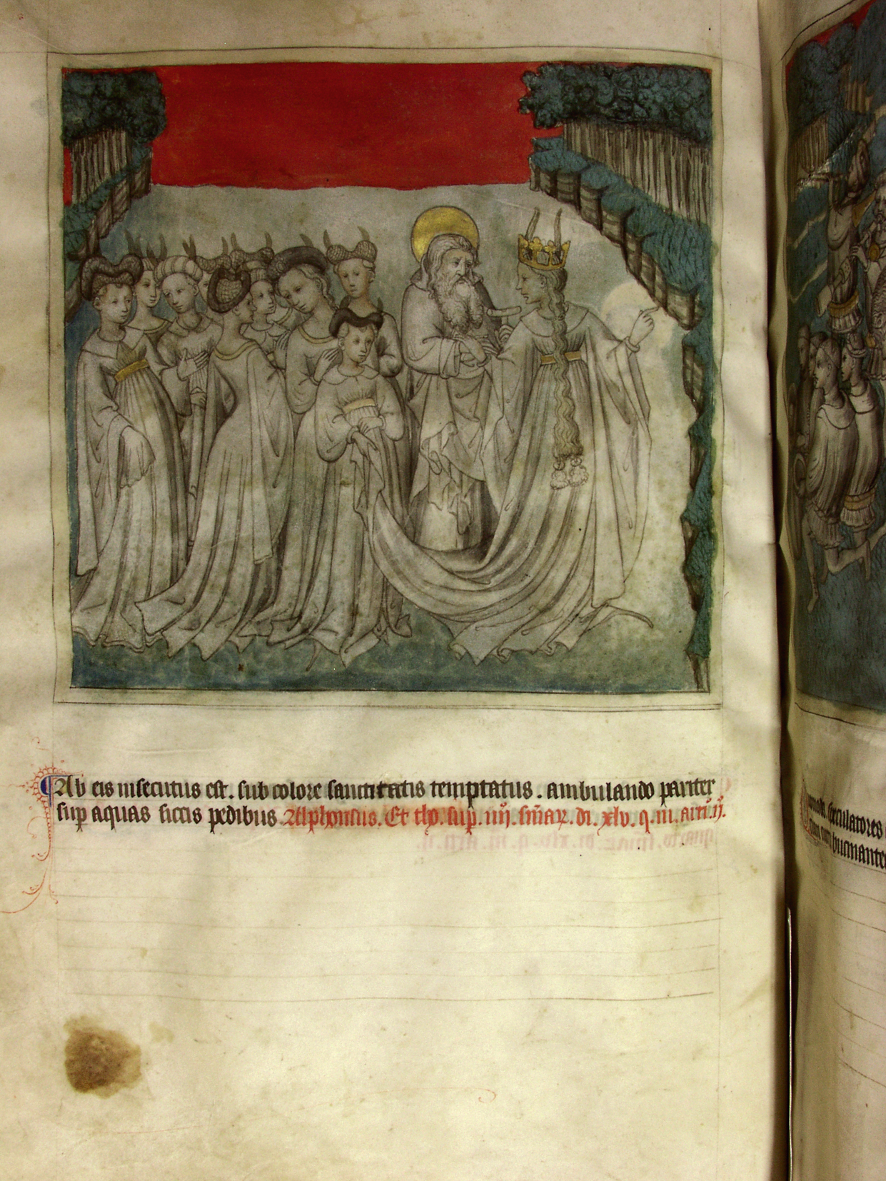 Temptation of St. Anthony of Egytp by the devil queen. Miniature painting created in Saint-Antoine-l'Abbaye in 1426